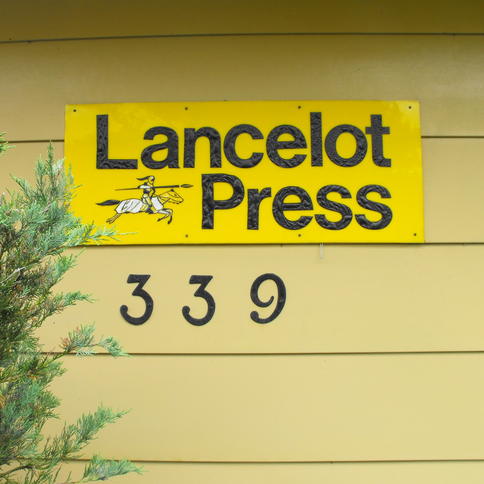 Sign for Lancelot Press, Mt. Denson near Hantsport NS